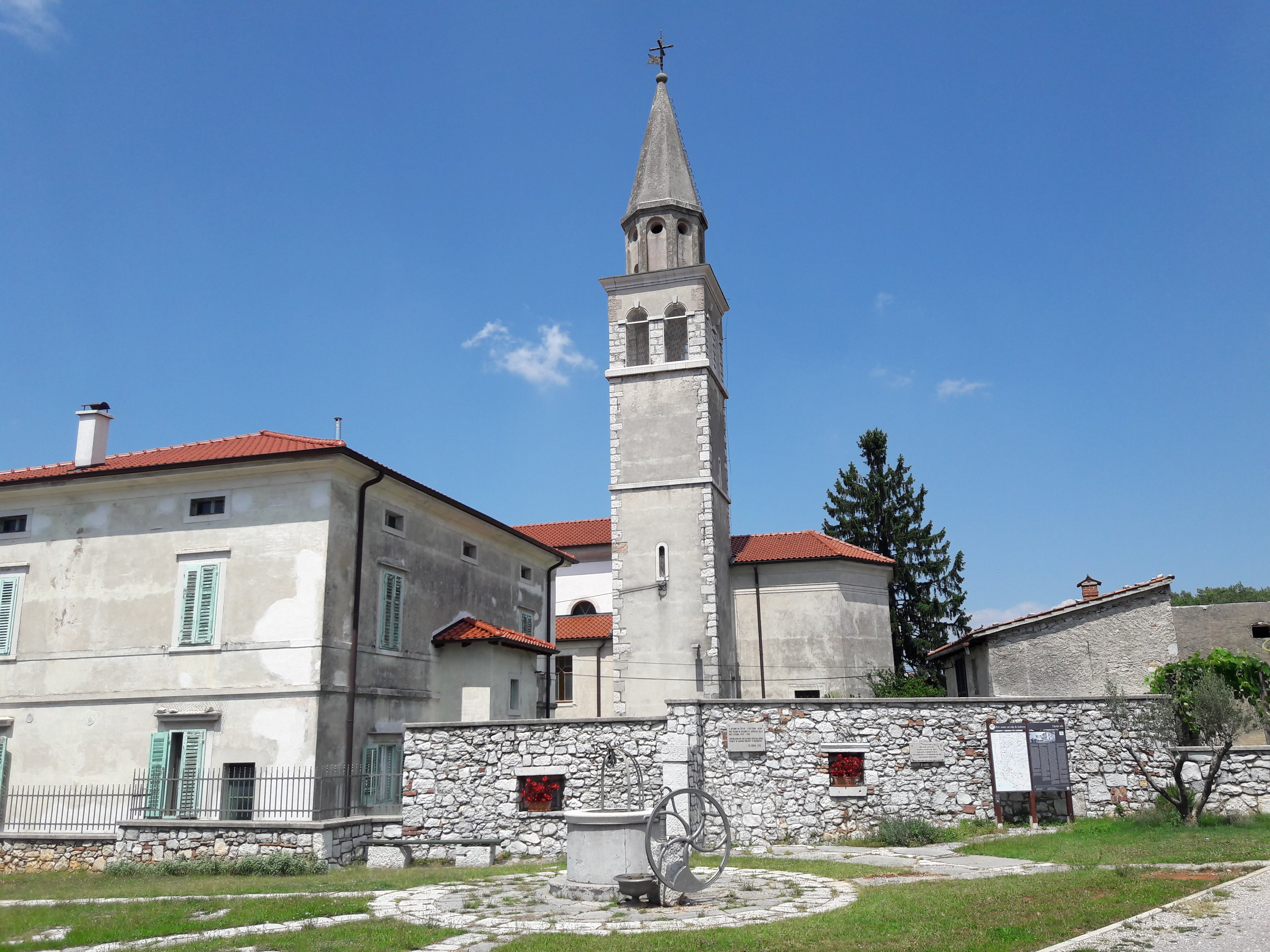 Opatje selo, sttlement in Slovenia